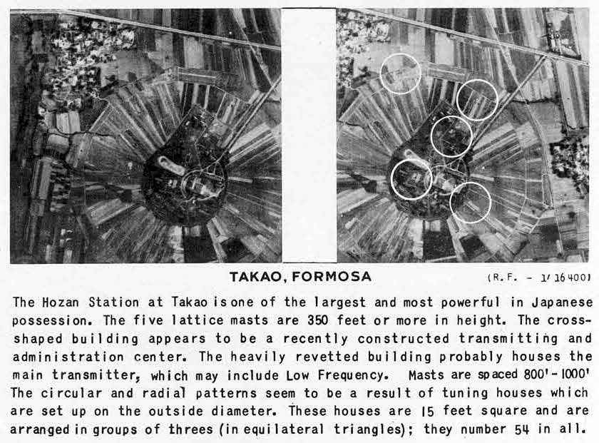 Quote from the text: "Hozan Station at Takao is one of the largest and most powerful in Japanese possession. The five lattice masts are 350 feet or more in height."